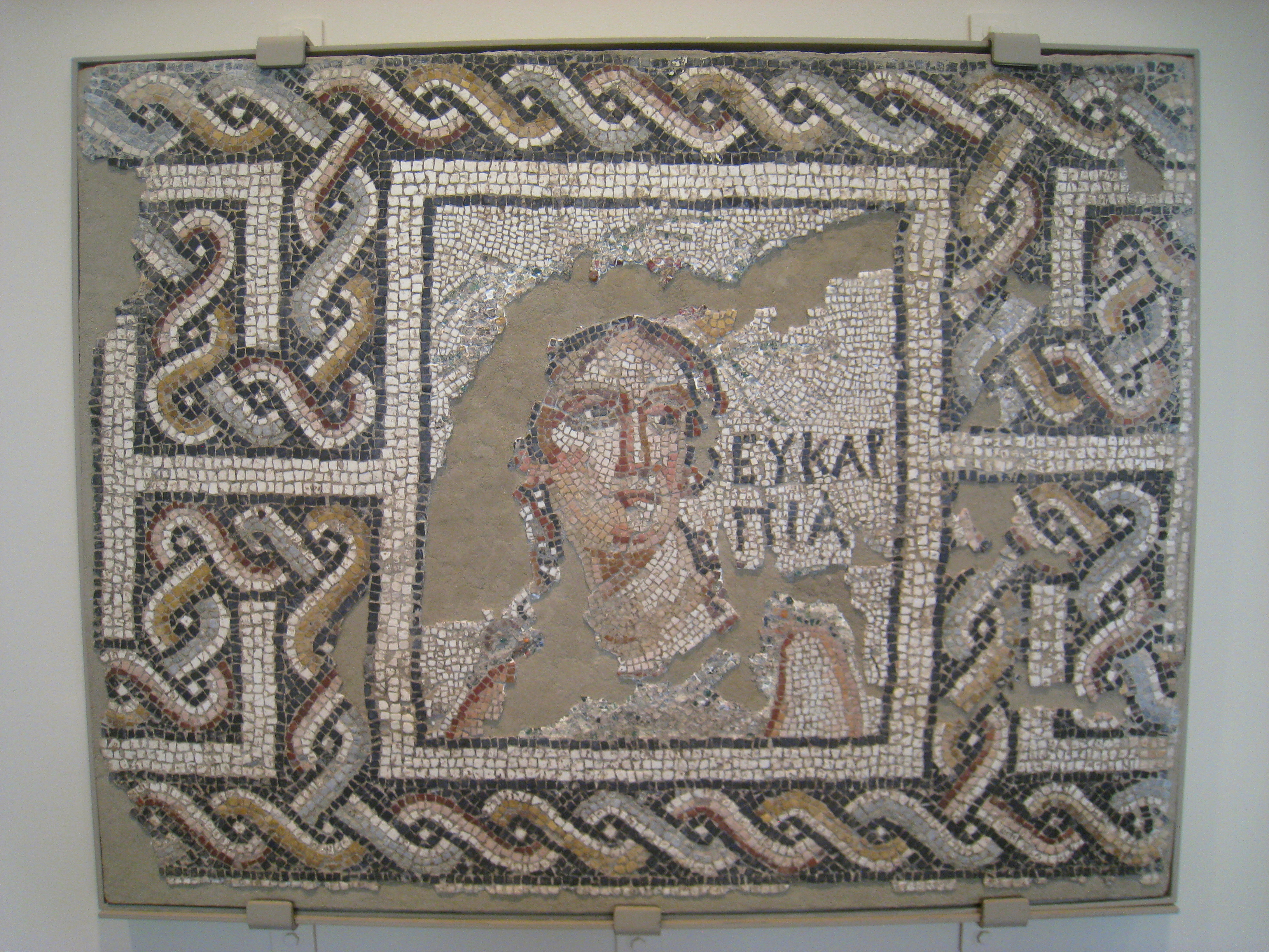 EYKARPIA. Antioch mosaics in the Worcester Art Museum, Worcester, Massachusetts, USA. The museum permits photography and does not restrict usage of the photographs.